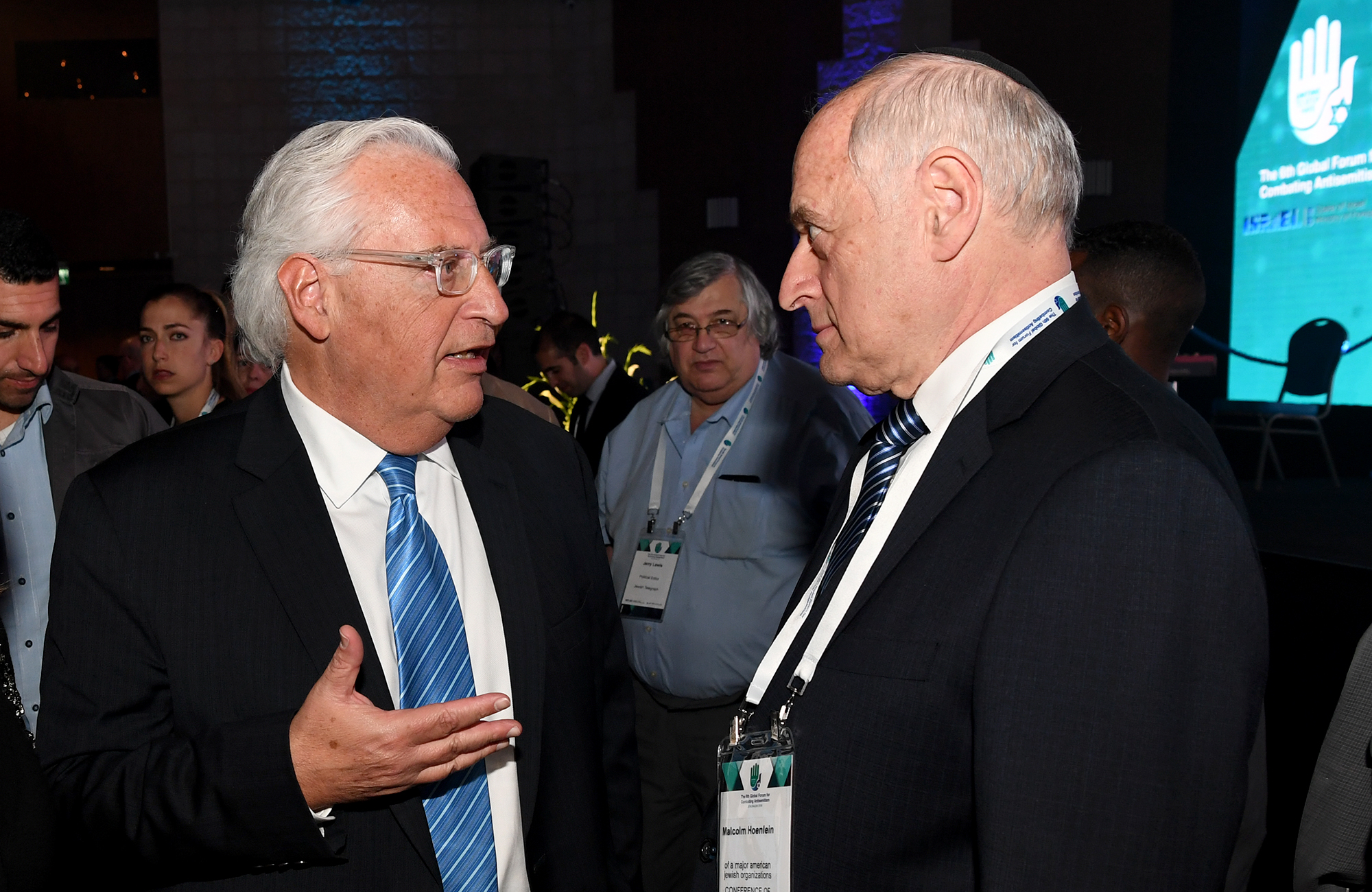 Ambassdor David Friedman at the 6th Global Forum for combating Antisemitism.